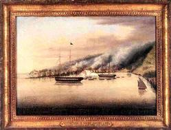 Bombardment of Muckie (Sumatra) 1 January 1839, by the Columbia and the John Adams during the Second Sumatran Expedition. Oil on canvas, 14" x 22".